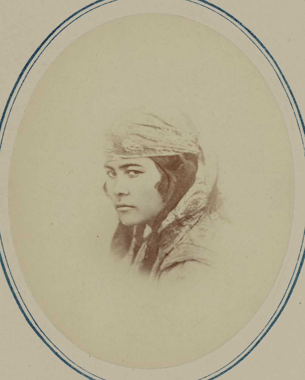 This photograph is from the ethnographical part of Turkestan Album, a comprehensive visual survey of Central Asia undertaken after imperial Russia assumed control of the region in the 1860s. Commissioned by General Konstantin Petrovich von Kaufman (1818–82), the first governor-general of Russian Turkestan, the album is in four parts spanning six volumes: “Archaeological Part” (two volumes); “Ethnographic Part” (two volumes); “Trades Part” (one volume); and “Historical Part” (one volume). The principal compiler was Russian Orientalist Aleksandr L. Kun, who was assisted by Nikolai V. Bogaevskii. The album contains some 1,200 photographs, along with architectural plans, watercolor drawings, and maps. The “Ethnographic Part” includes 491 individual photographs on 163 plates. The photographs show individuals representing the different peoples of the region (Plates 1–33); daily life and rituals (Plates 34–91); and views of villages and cities, street vendors, and commercial activities (Plates 92–163). Clothing and dress; Ethnographic photographs; Headgear; Photographic surveys; Portrait photographs; Portraits; Turkic peoples; Women